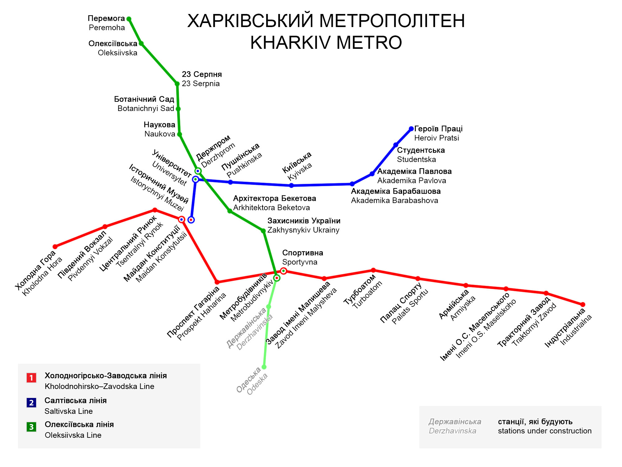 Map of the Kharkiv Metro.